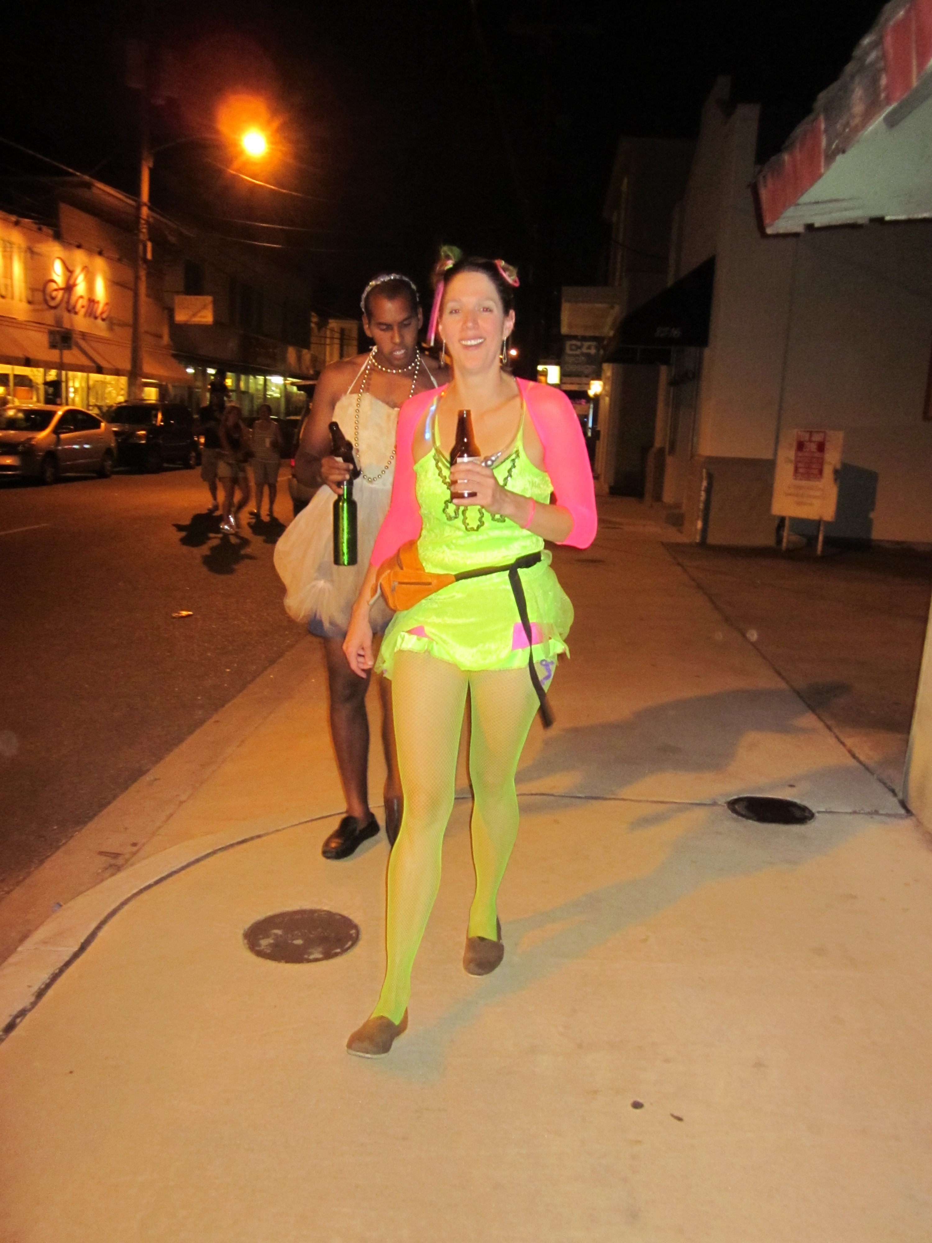 New Orleans: "Krewe of OAK Midsummer Mardi Gras" celebration and parade in the Carrollton district.